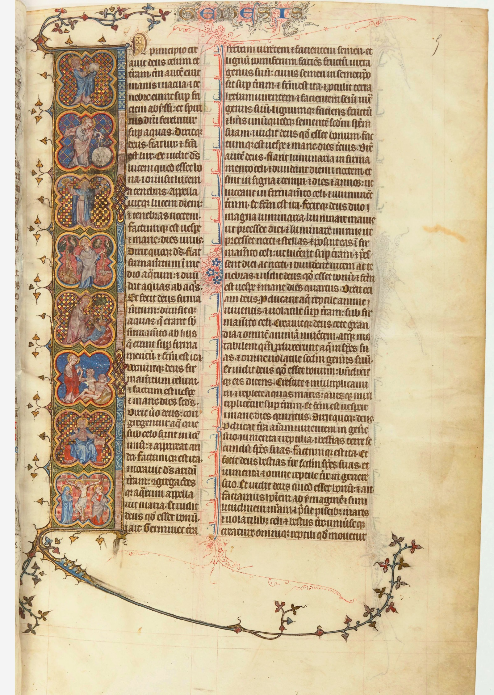 Jean Pucelle. The Robert de Billing Bible. 1327 Bibliotheque Nationale, Paris (MS. Lat. 11935, fol.5)